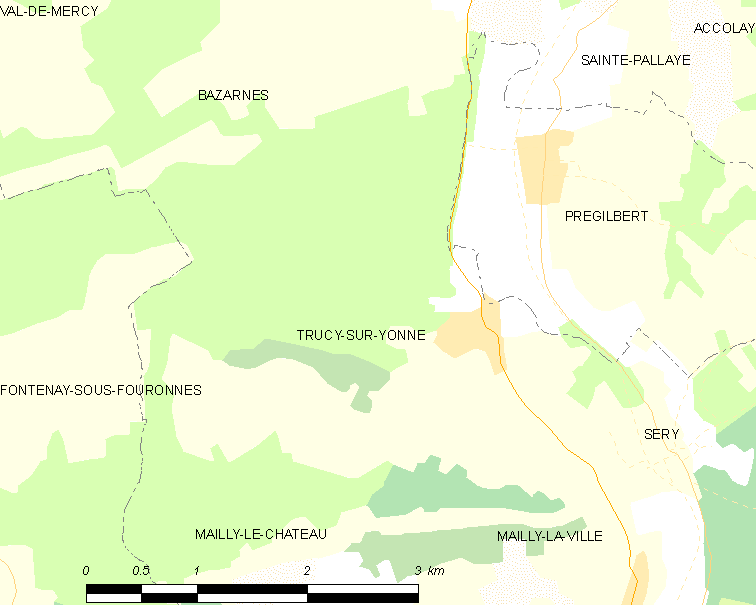 Map of French municipality Trucy-sur-Yonne